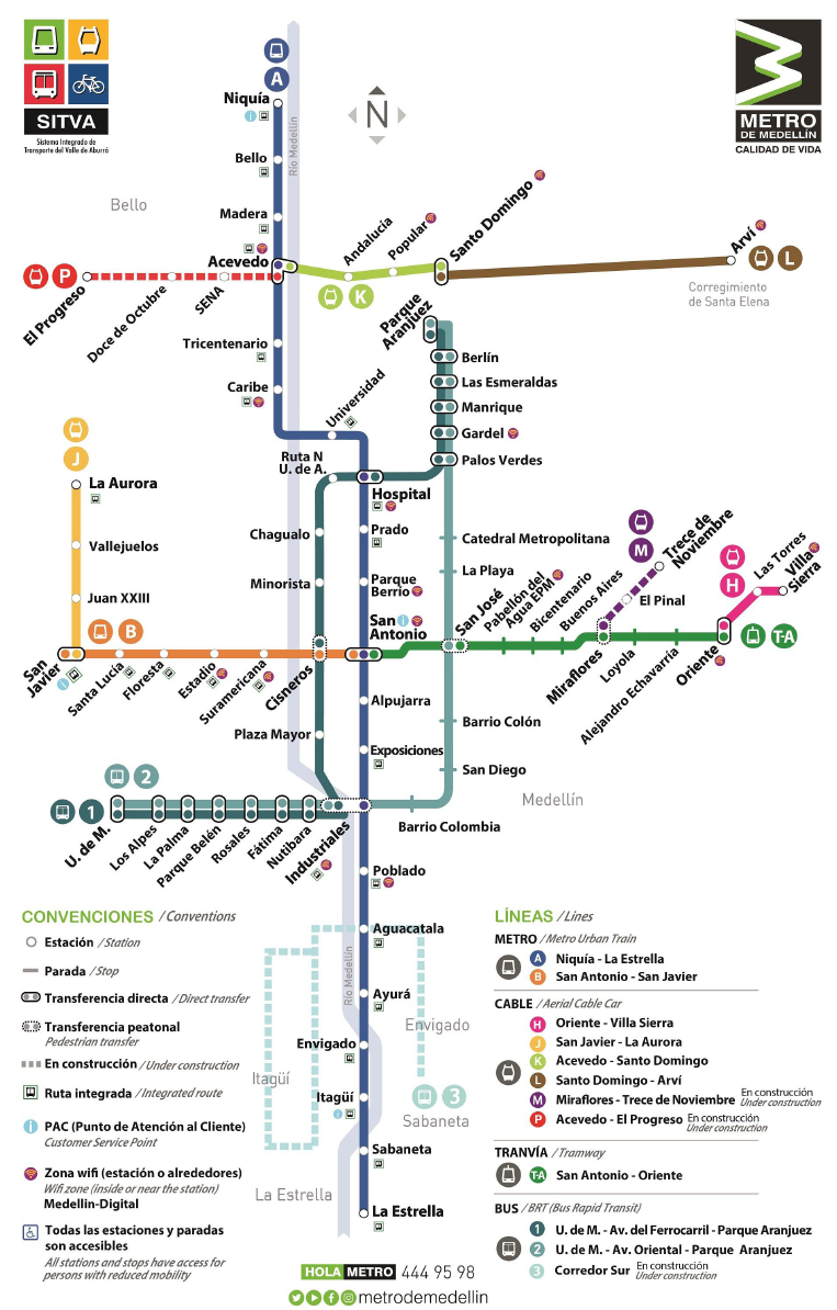 Medellin Metro Map